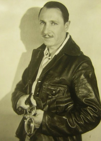 Armand Kaliz in The Aviator (1929) - publicity still (cropped : see source)